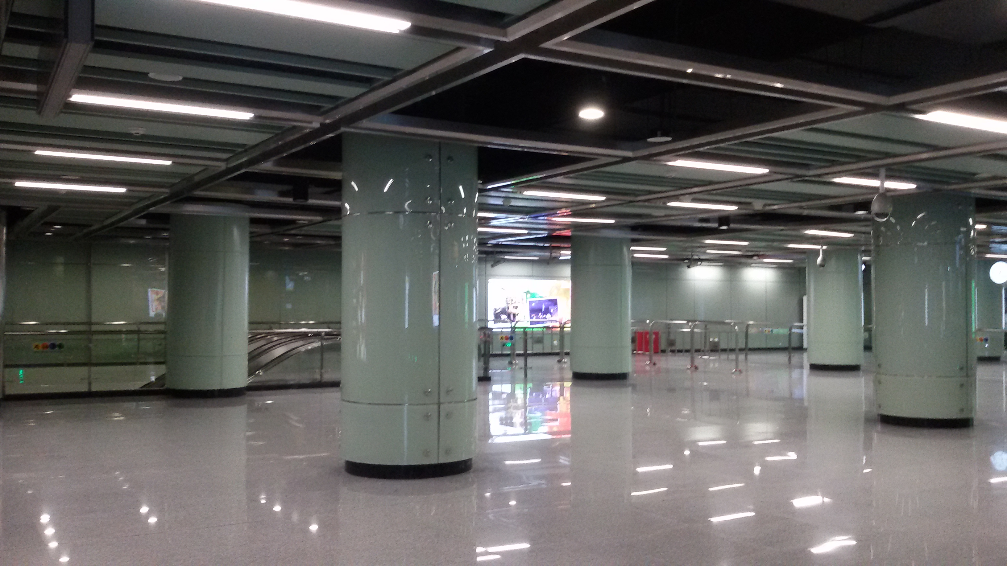 Station Concourse for Yide Lu Station in Guangzhou Metro.